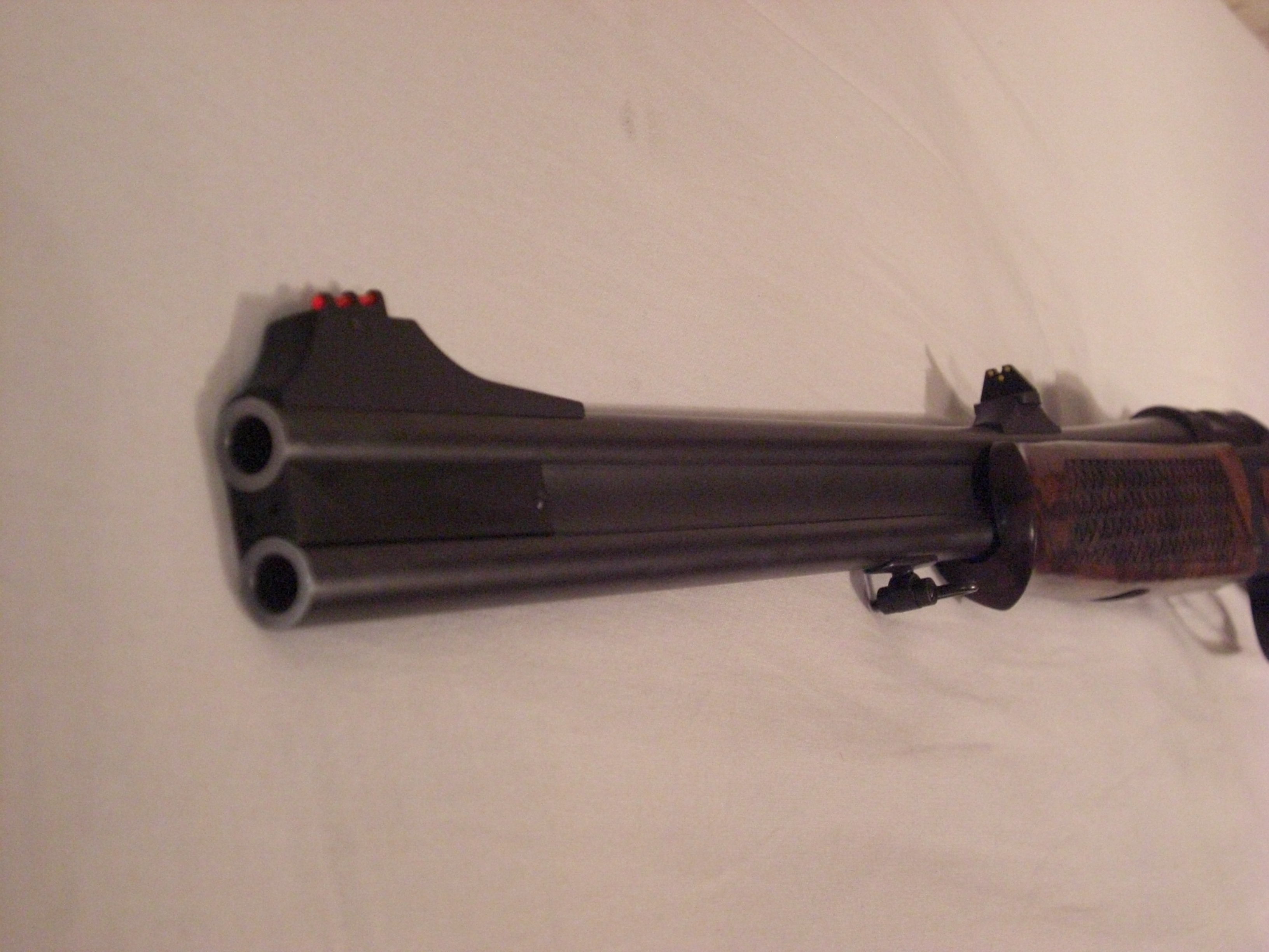 Muzzlez of a .30-06 double-barrel carbine